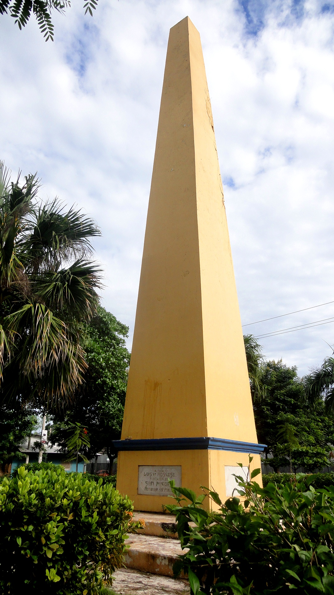 The Obelisk Place, Monument to Captain Luis de Moscoso. San Miguel.